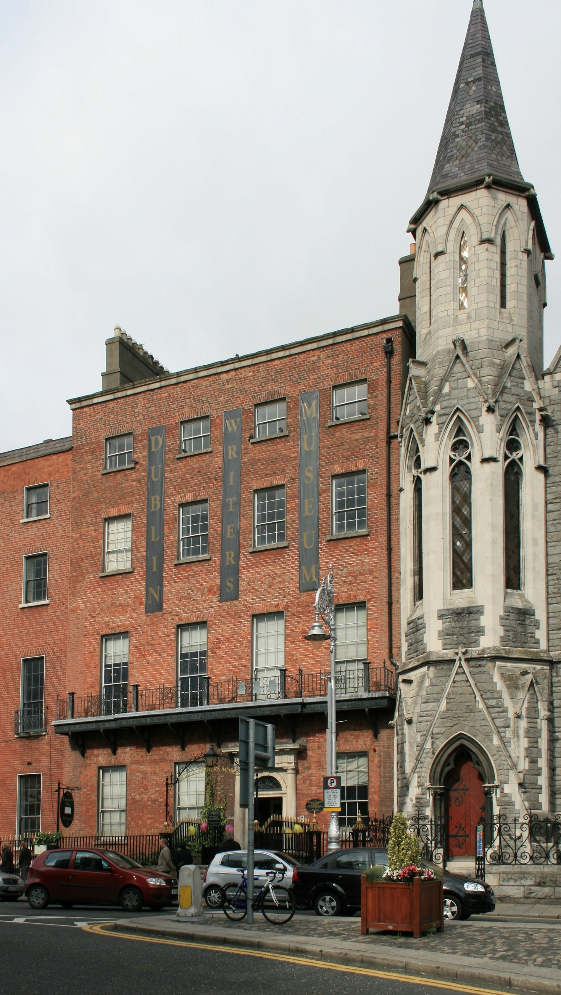 Writers Museum in Dublin, Parnell Square, Dublin, Republic of Ireland